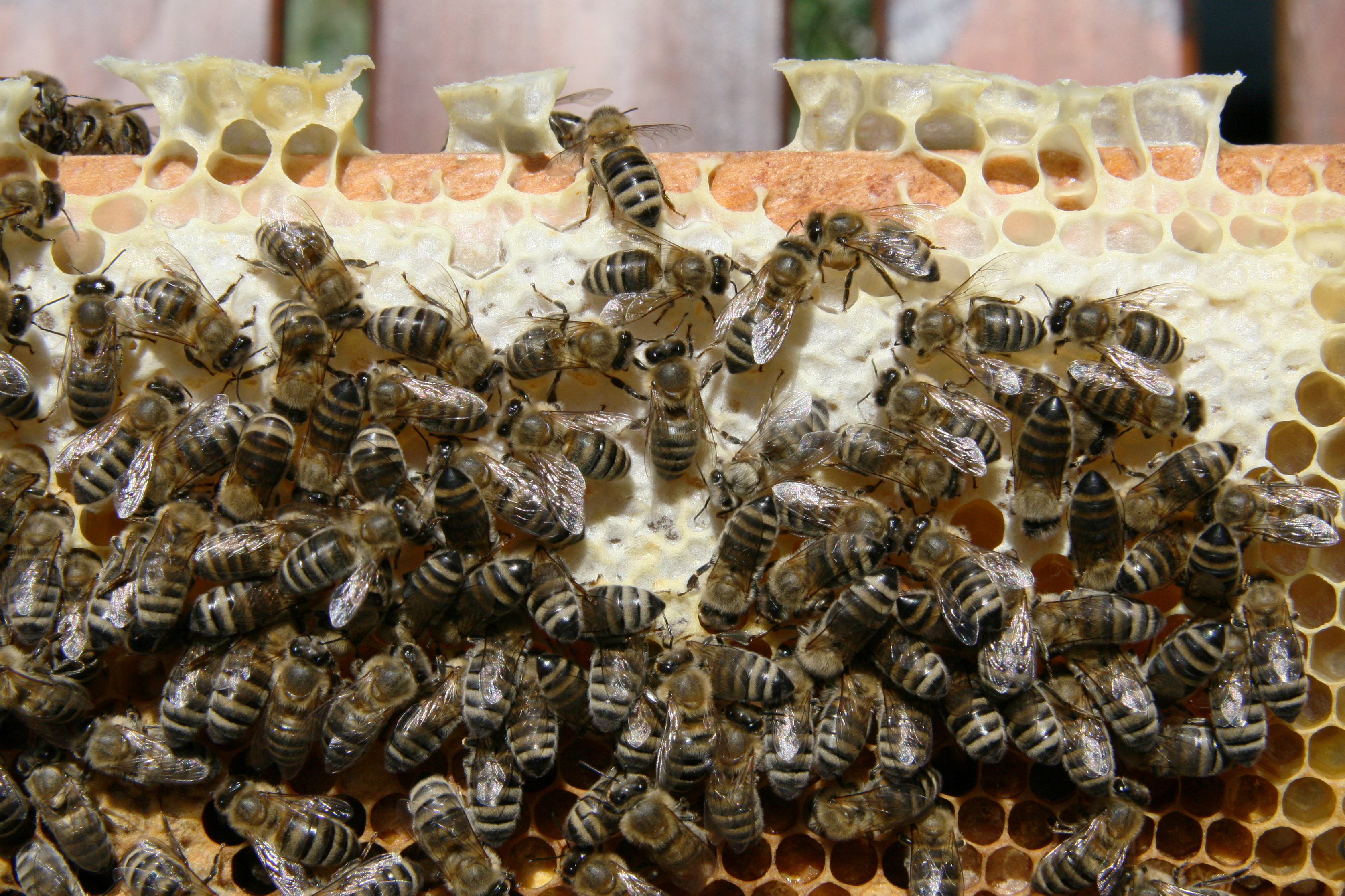 Bienen auf einer Bienenwabe - Carniolan honey bees (Apis mellifera carnica Pollman) on a honeycomb